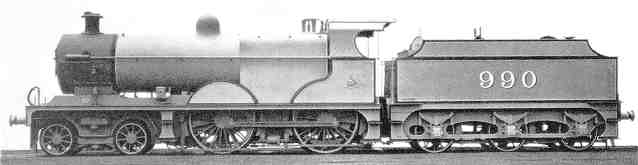 Midland Railway 990 Class, official photograph, believed to be dated 1909. It is in photographic grey livery. A higher resolution version of this image is in the hands of the National Railway Museum, and is available in Essery & Jenkinson illustrated review of Midland locomotives, vol 1. It is believed in good faith to be public domain on the following rationale: Since it is an official photograph, the author is unknown: he is anonymous and unidentifiable. Therefore copyright expires 70 years after first publication The image was published in contemporary railway magazines, books, etc in at least this small resolution at the time of its construction. If the last point is untrue, then a fair use/fair dealing defence could be made as they are publicity materials used for educational purposes.